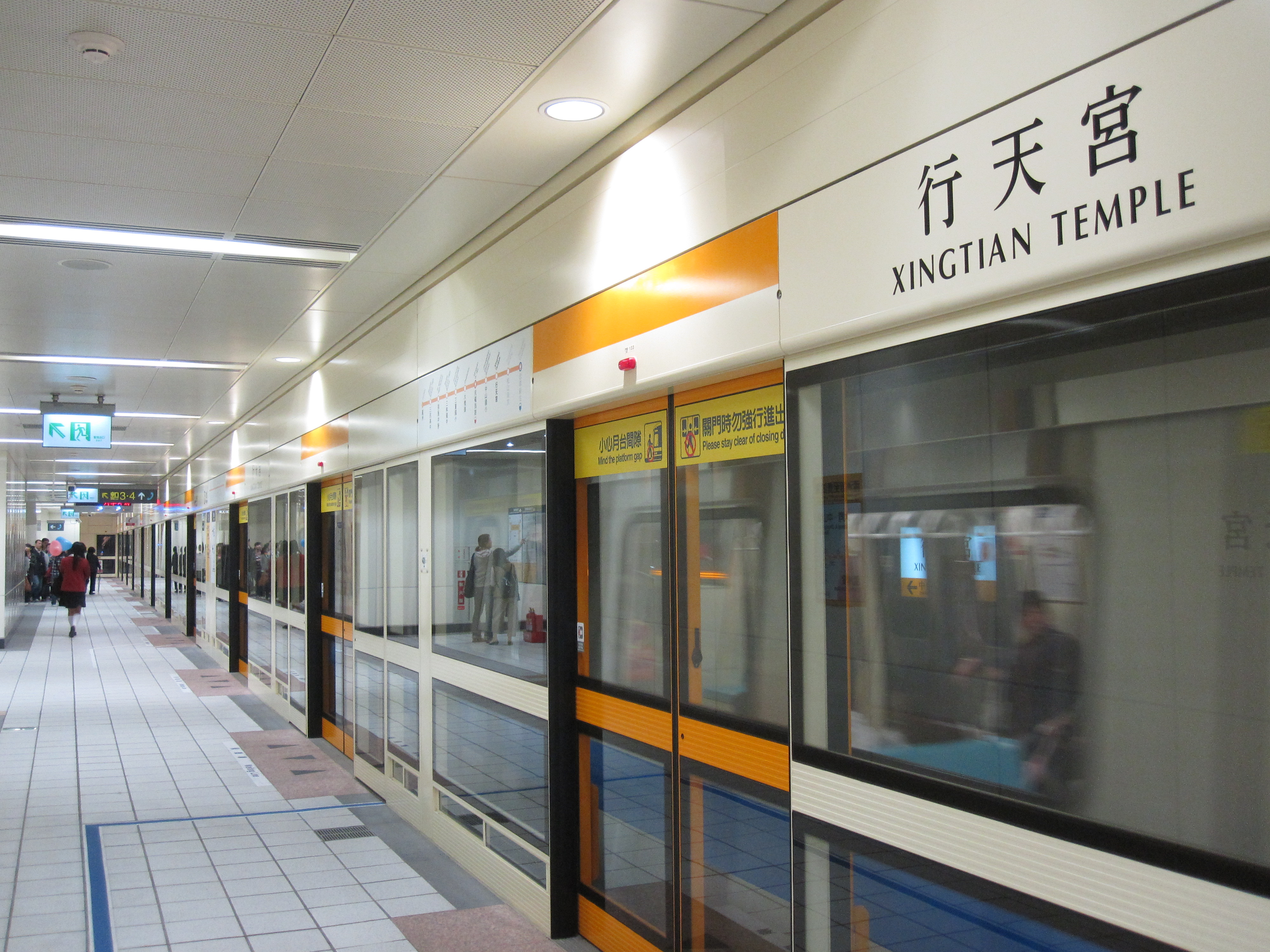 Xingtian Temple Station Platform 2